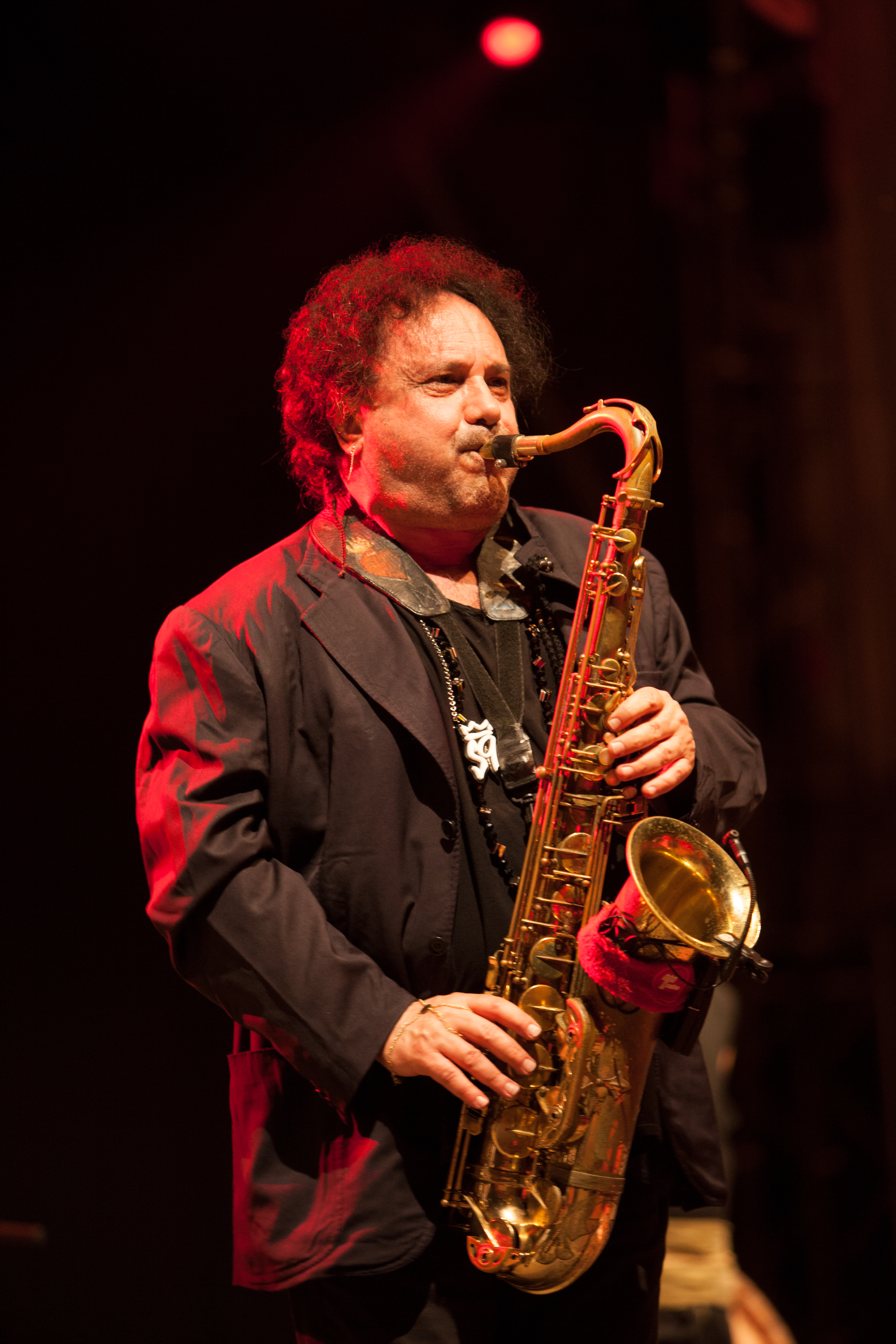 Enzo Avitabile at the TFF Rudolstadt 2013